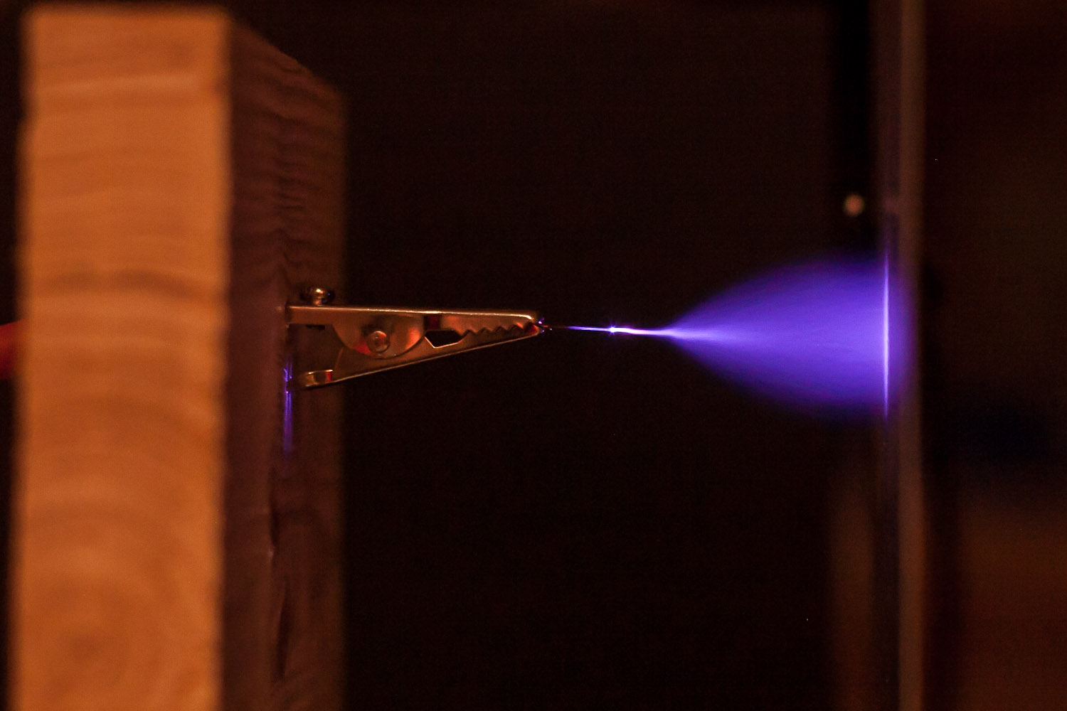 CoronaDischarge